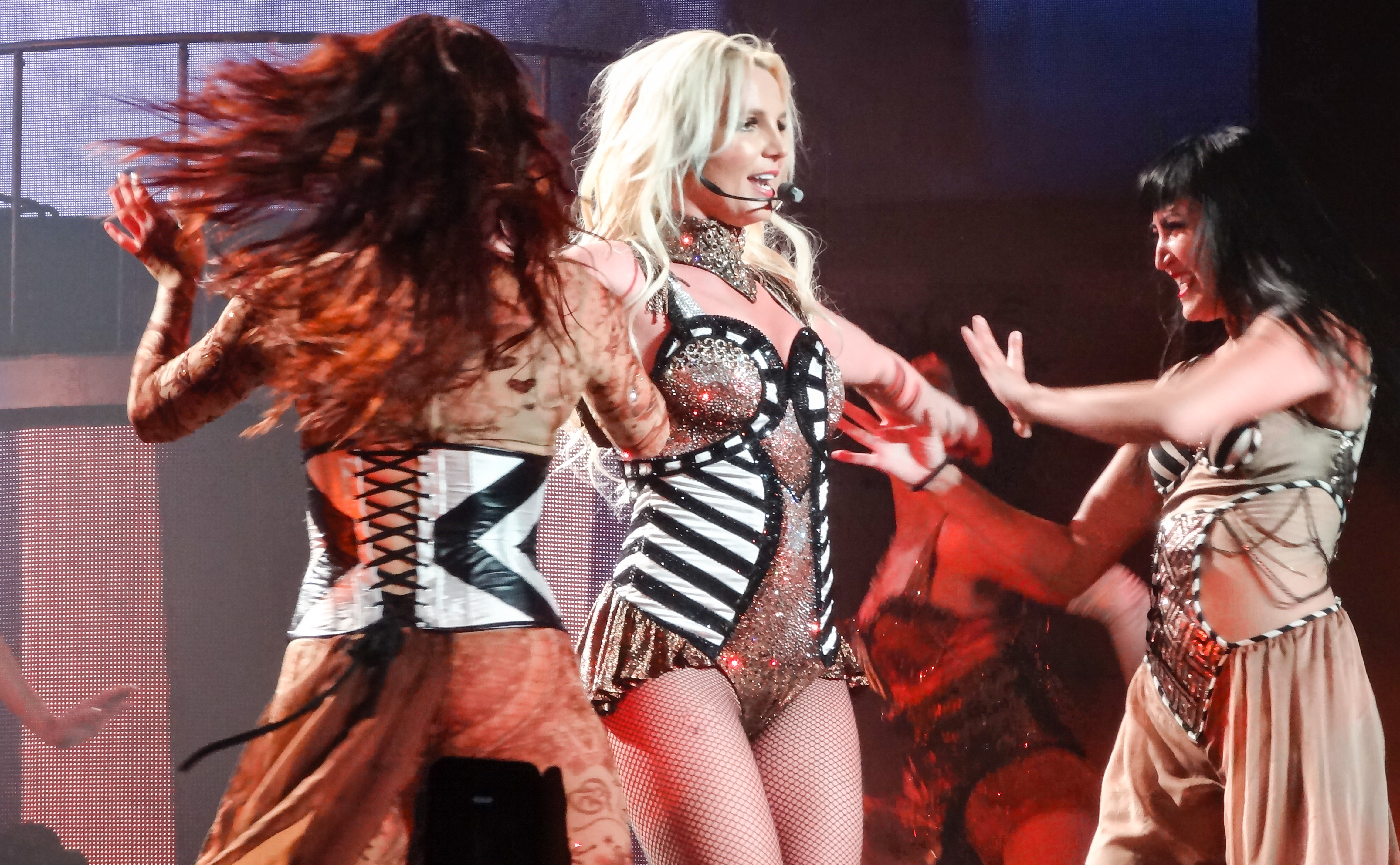 Circus